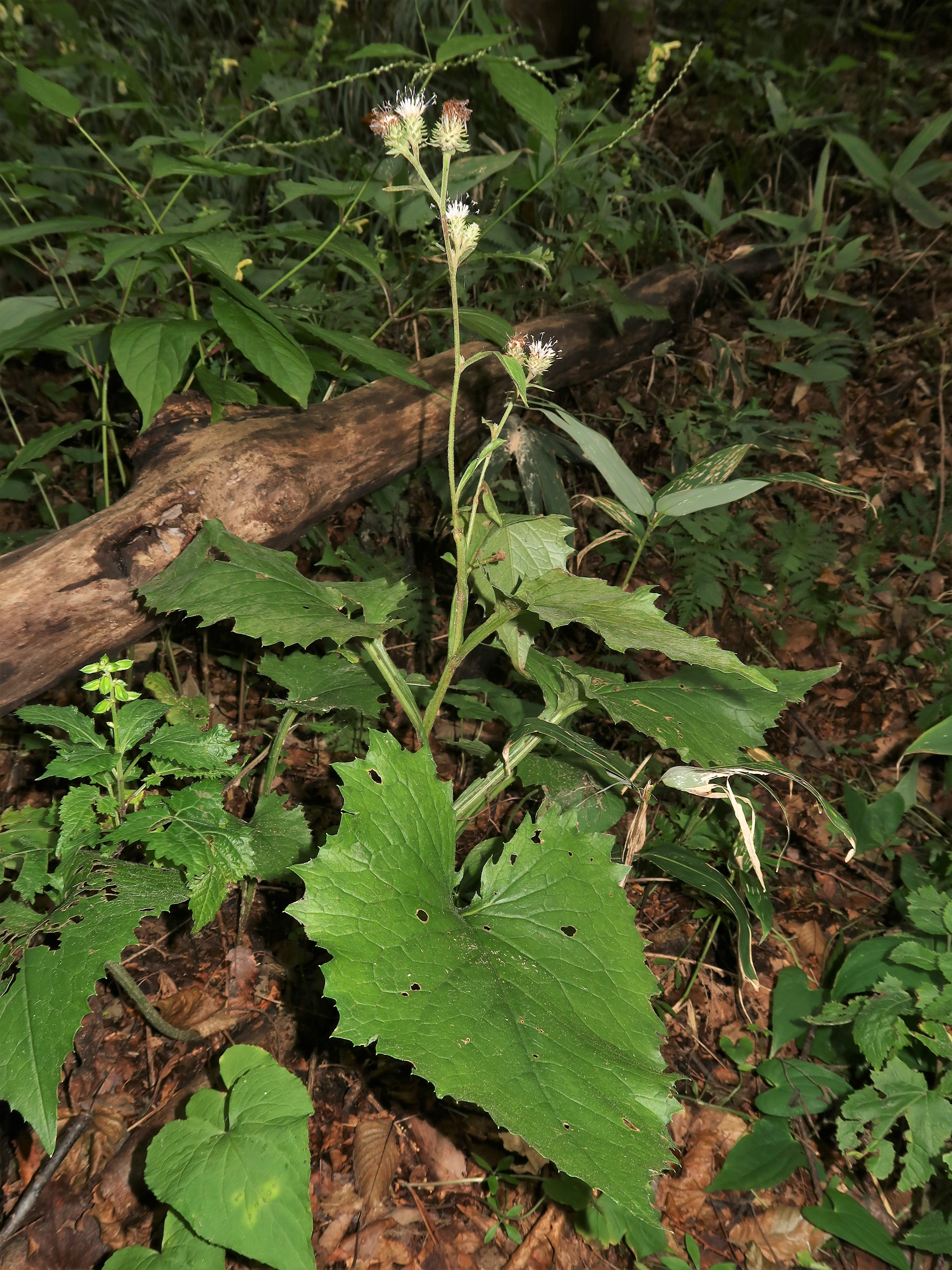 Saussurea shonaiensis, Tsuruoka city, Yamagata pref., Japan